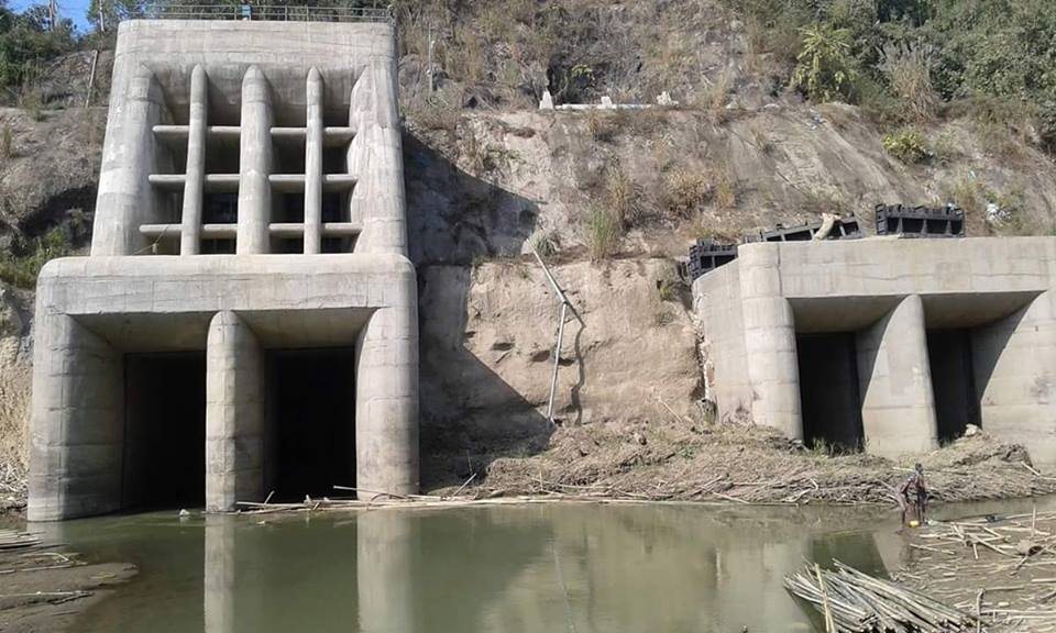 Tuirial dam water duct under construction